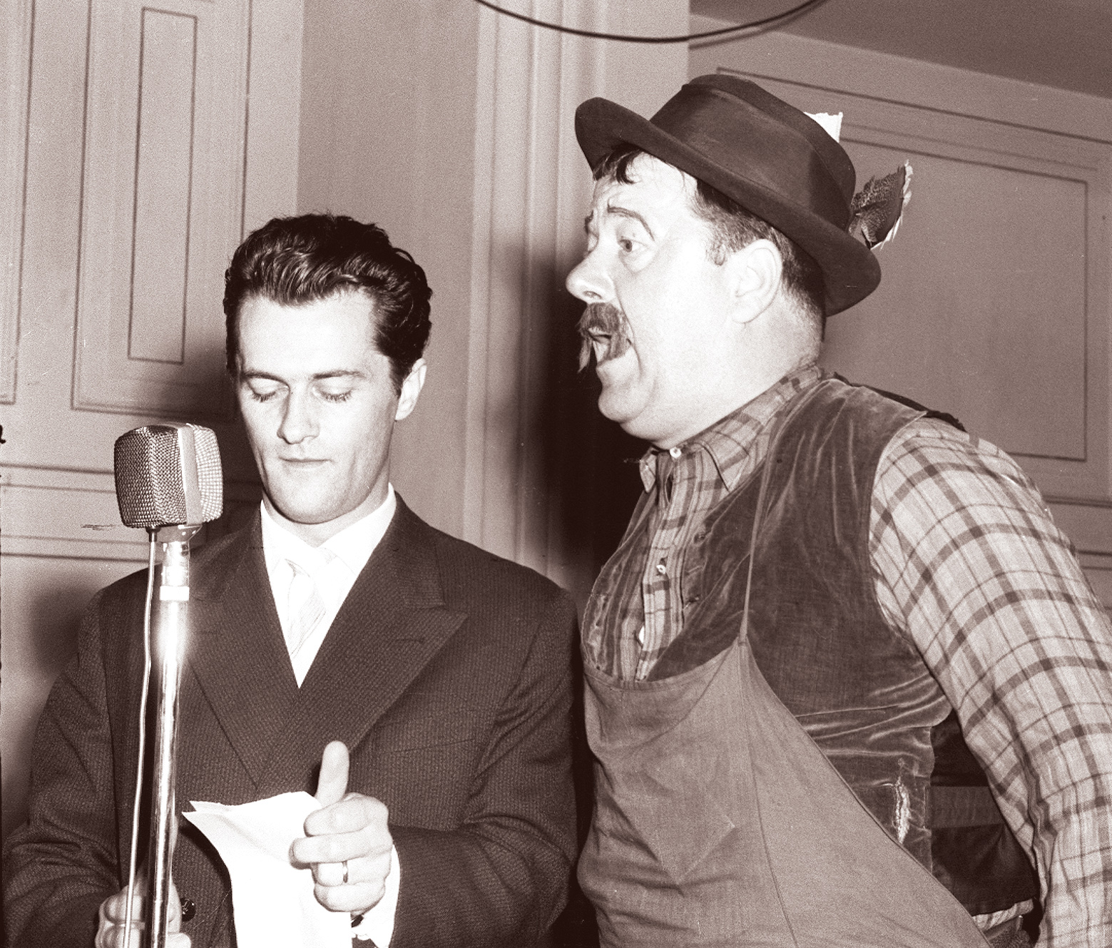 Janez Klasinc and Arnold Tovornik